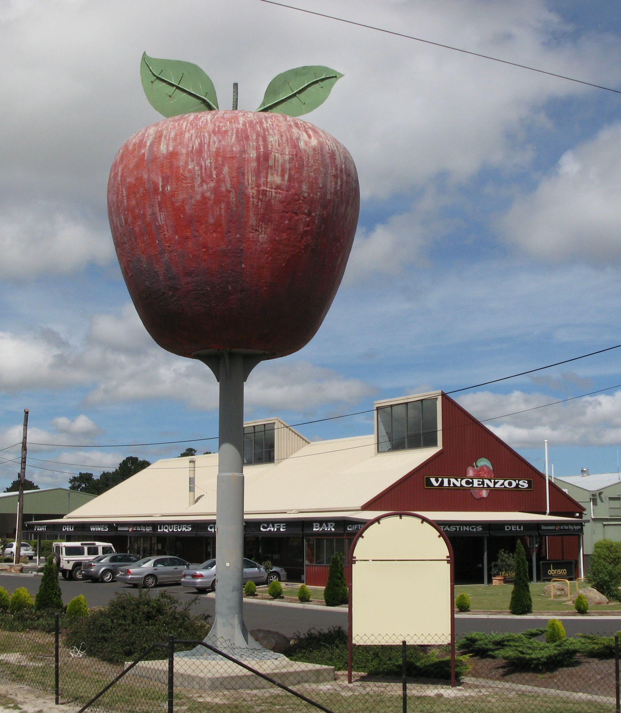 The Big Apple, Thulimbah with Vicenzo's "at The Big Apple" behind